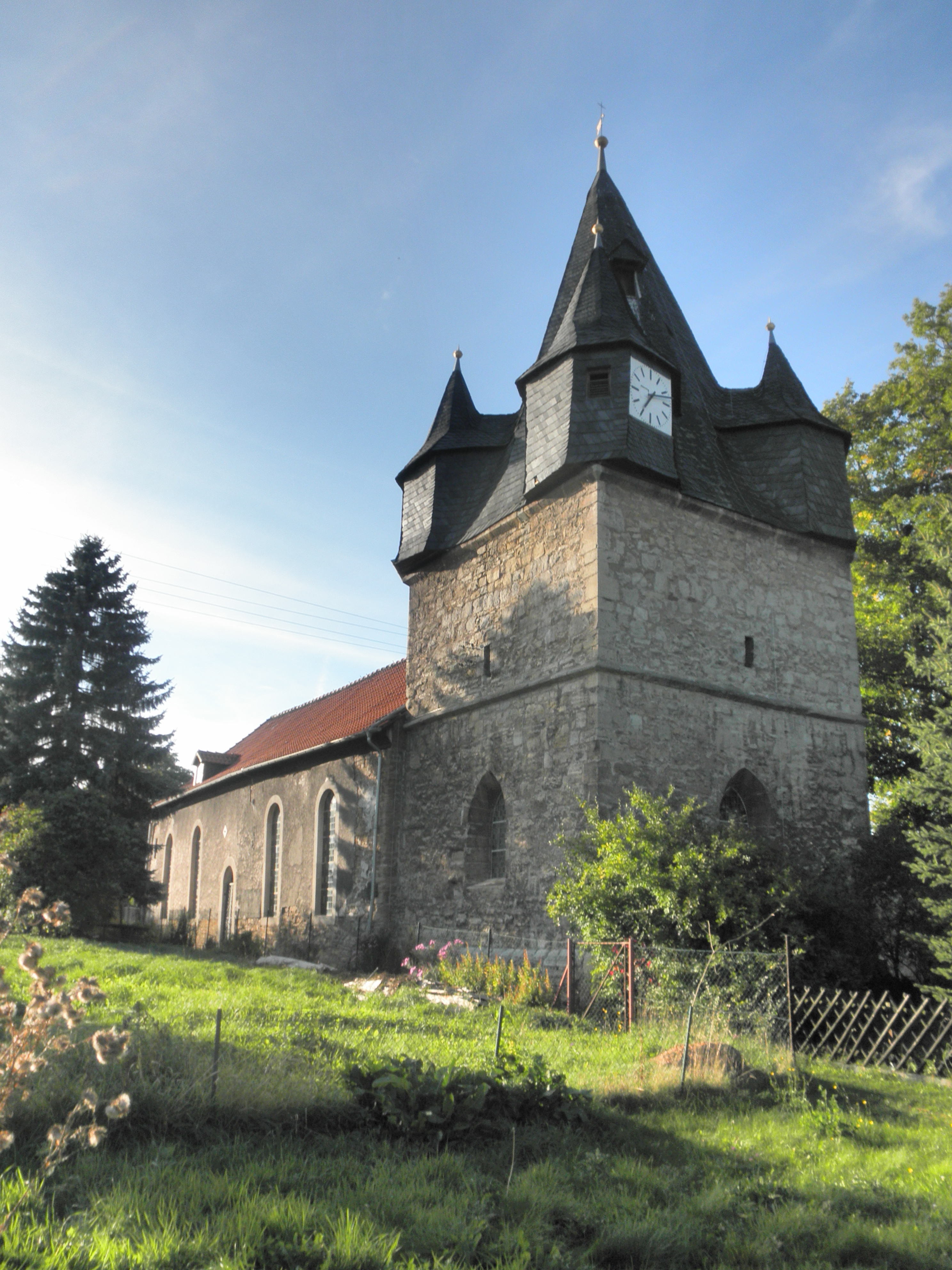 Church in Großwechsungen (Werther) in Thuringia